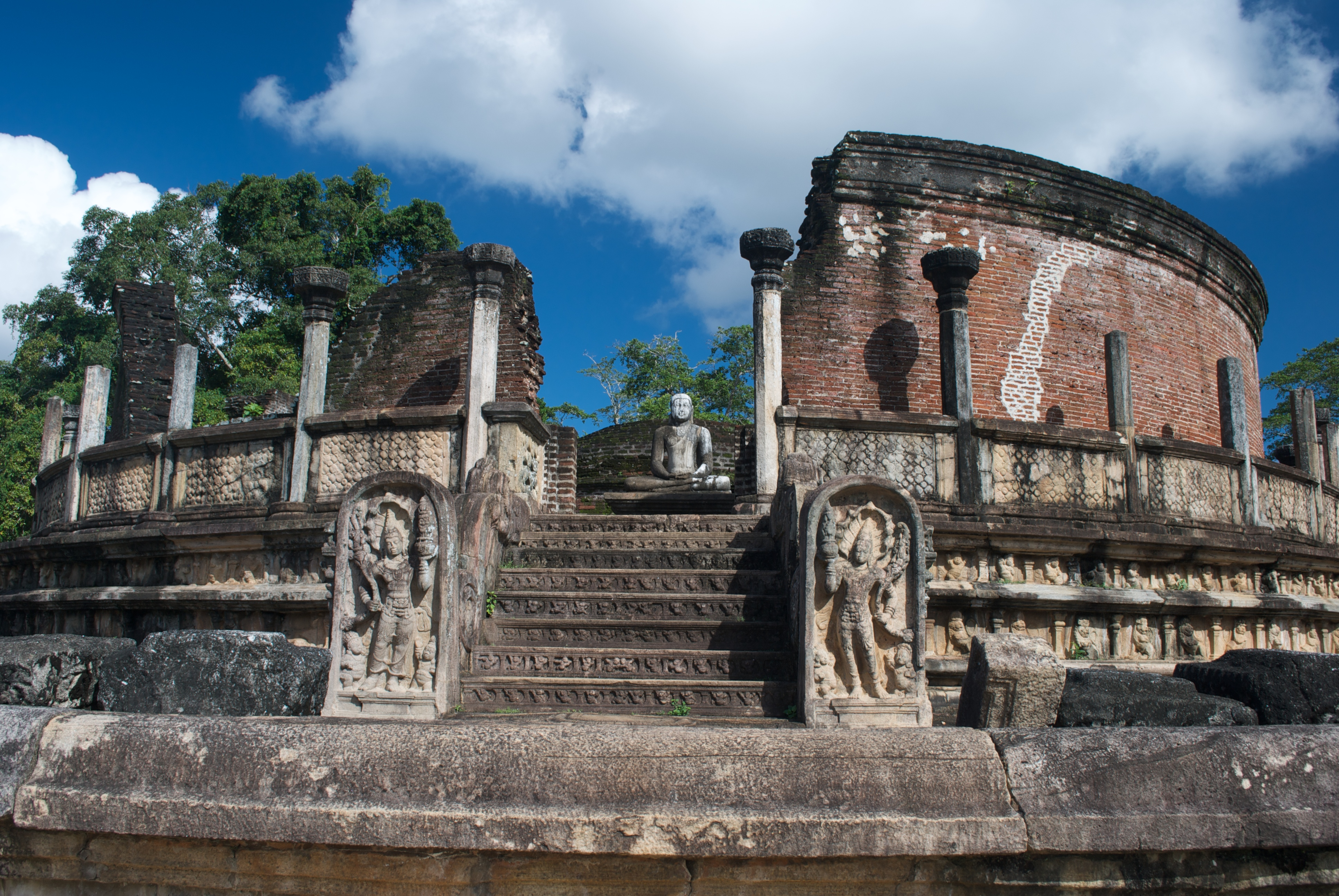 The Polonnaruwa Vatadage, in the ancient city of Polonnaruwa, Sri Lanka.